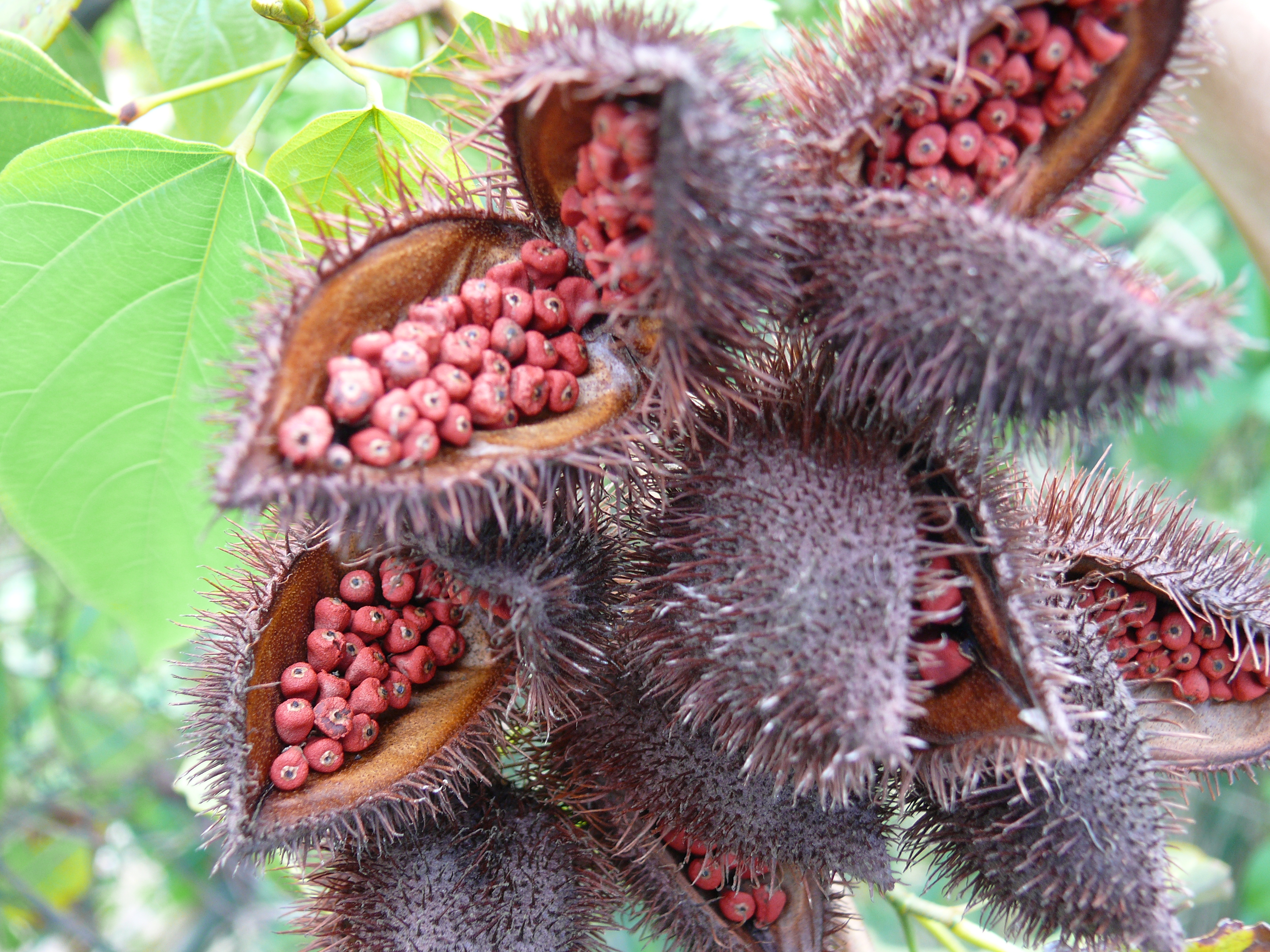 Fruit of mature Bixa orellana (roucou). Kourou, French Guiana.